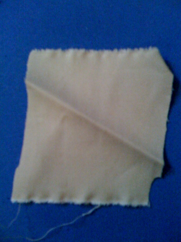 Bamboo silk